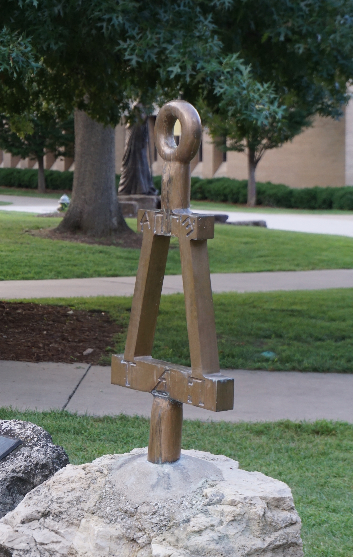 Tau Beta Pi Bent Monument on Missouri S&T Campus